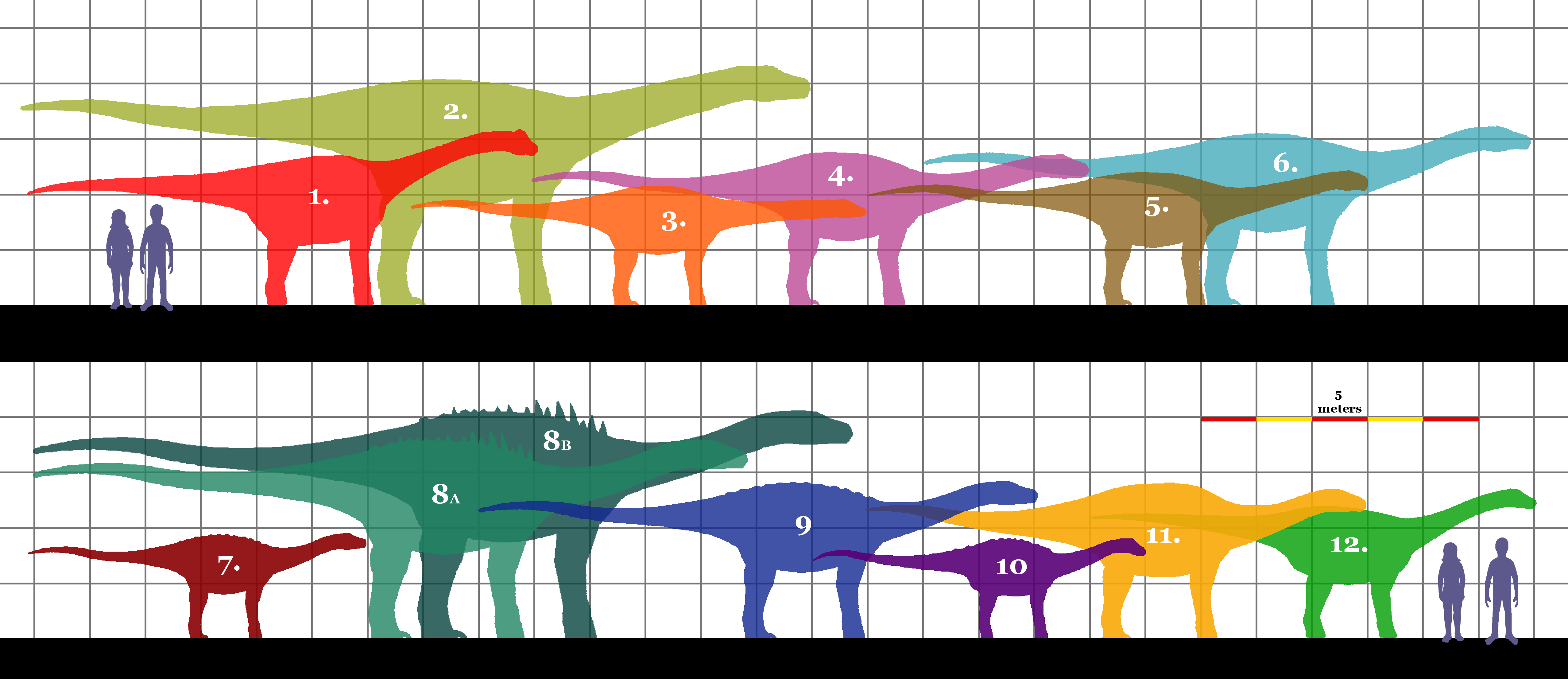 Size comparison of different genera of sauropod dinosaurs in the clade Titanosauria. Titanosaurs lived during the Cretaceous, and came in many sizes. They include the largest animals that ever existed on land, but also some of the smallest of sauropods. The smallest of all Titanosaurs was Magyarosaurus, which measured only 6 meters ( about 20 feet ). 1. Sonidosaurus, 2. Austrosaurus, 3. Hypselosaurus, 4. Venenosaurus, 5. Malawisaurus, 6. Rincosaurus, 7. Bonatitan, 8. Ampelosaurus in smaller size (A) and larger (B), 9. Saltasaurus, 10. Magyarosaurus, 11. Bonitasaura, 12. Gondwanatitan.